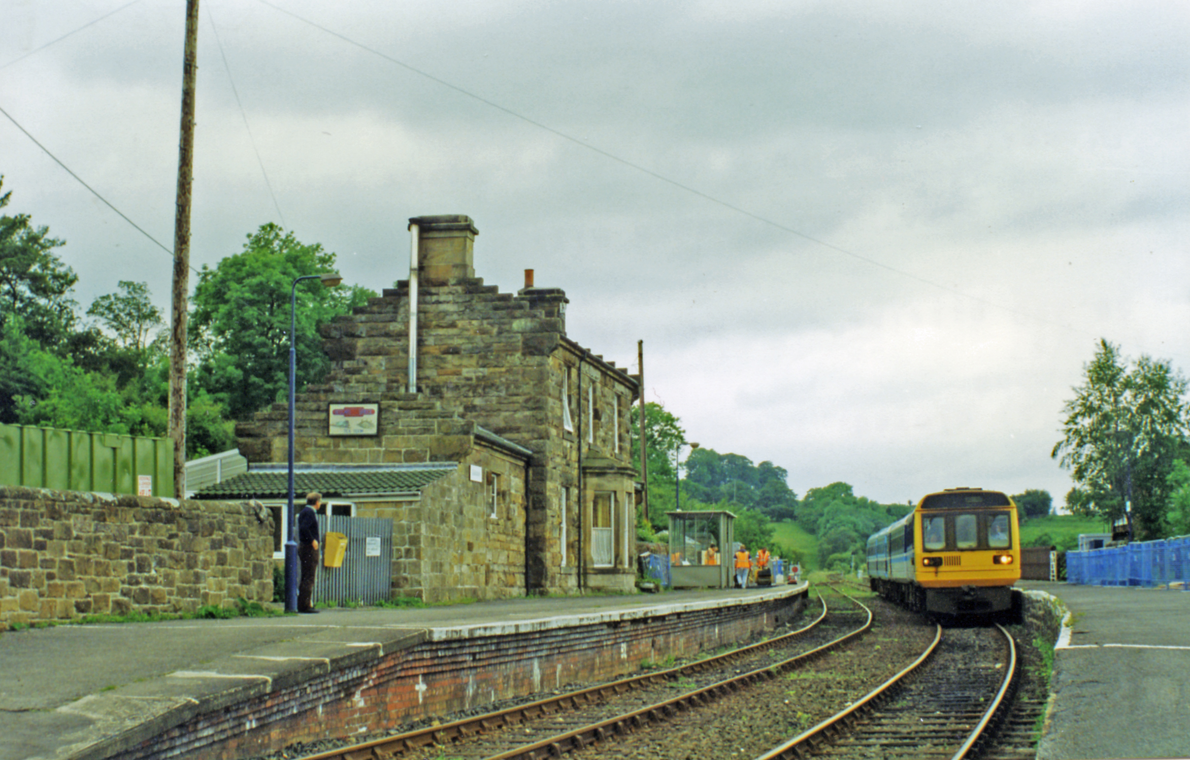 Glaisdale station, with train 1997. View SE, towards Whitby: ex-NER Scarborough - Whitby - Middlesbrough line, closed Scarborough - Whitby 8/3/65. The train arriving is a Class 142 'Pacer' DMU